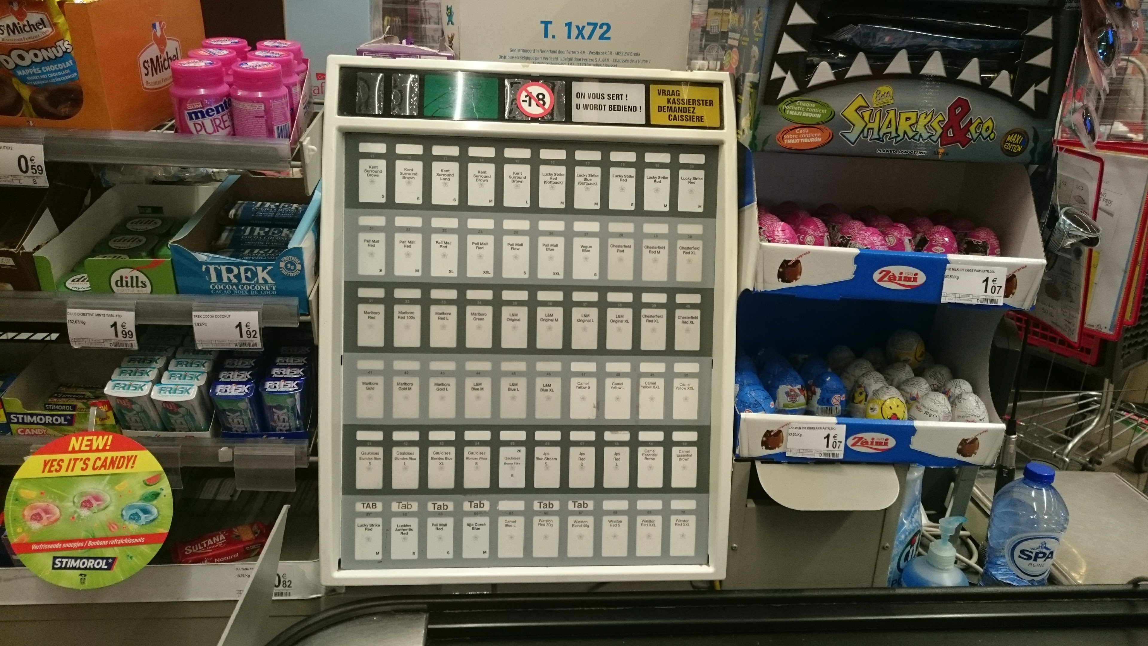 A tobacco distributor in Liège, Belgium after plain tobacco packaging.